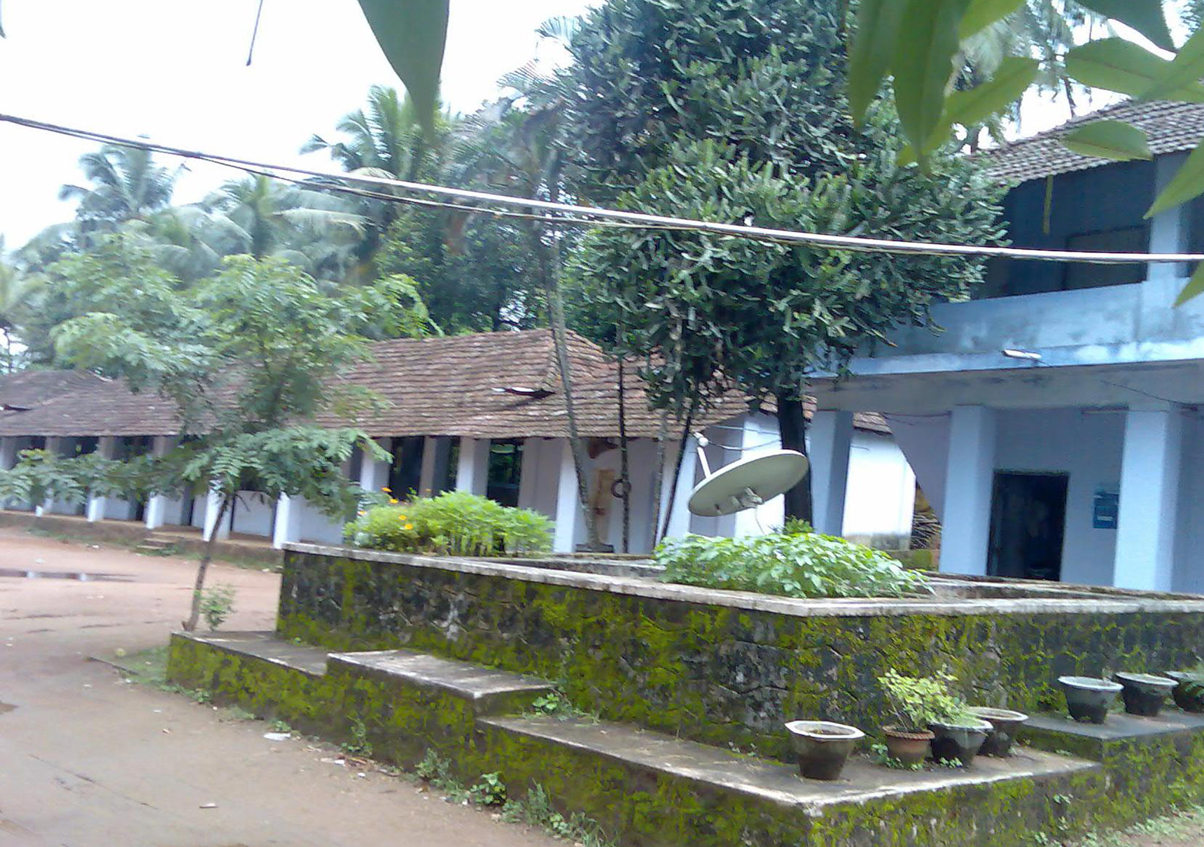 AKMHSS, POOCHATTY SCHOOL PHOTO